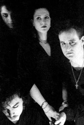 This image of Lestat was taken in 1991 for the release Grave Desires.